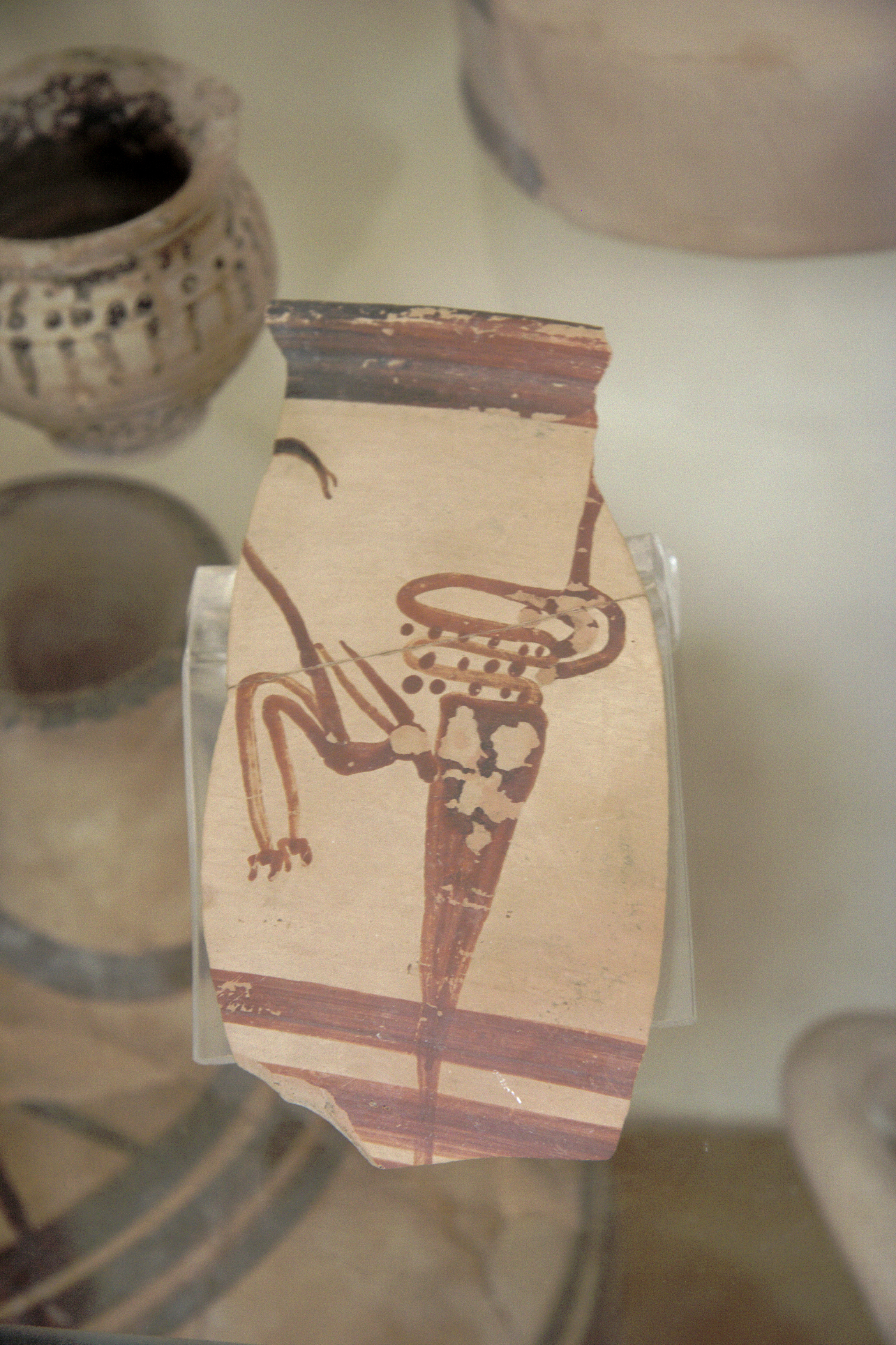 Fragment of late Mycenaean pottery. Koukounaries (Naoussa), Paros, 1300-1150 BC. Archaeological museum of Paros.